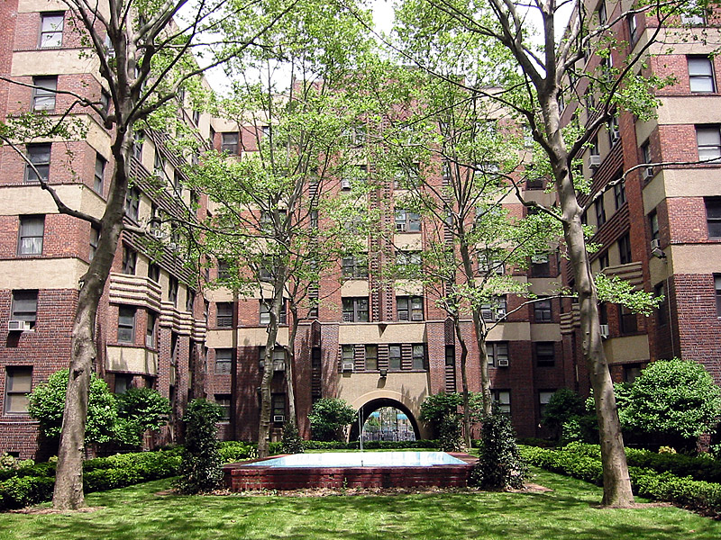 Inner Courtyard of Amalgamated Dwellings housing cooperative (1930) in Cooperative Village on the Lower East Side of Manhattan.